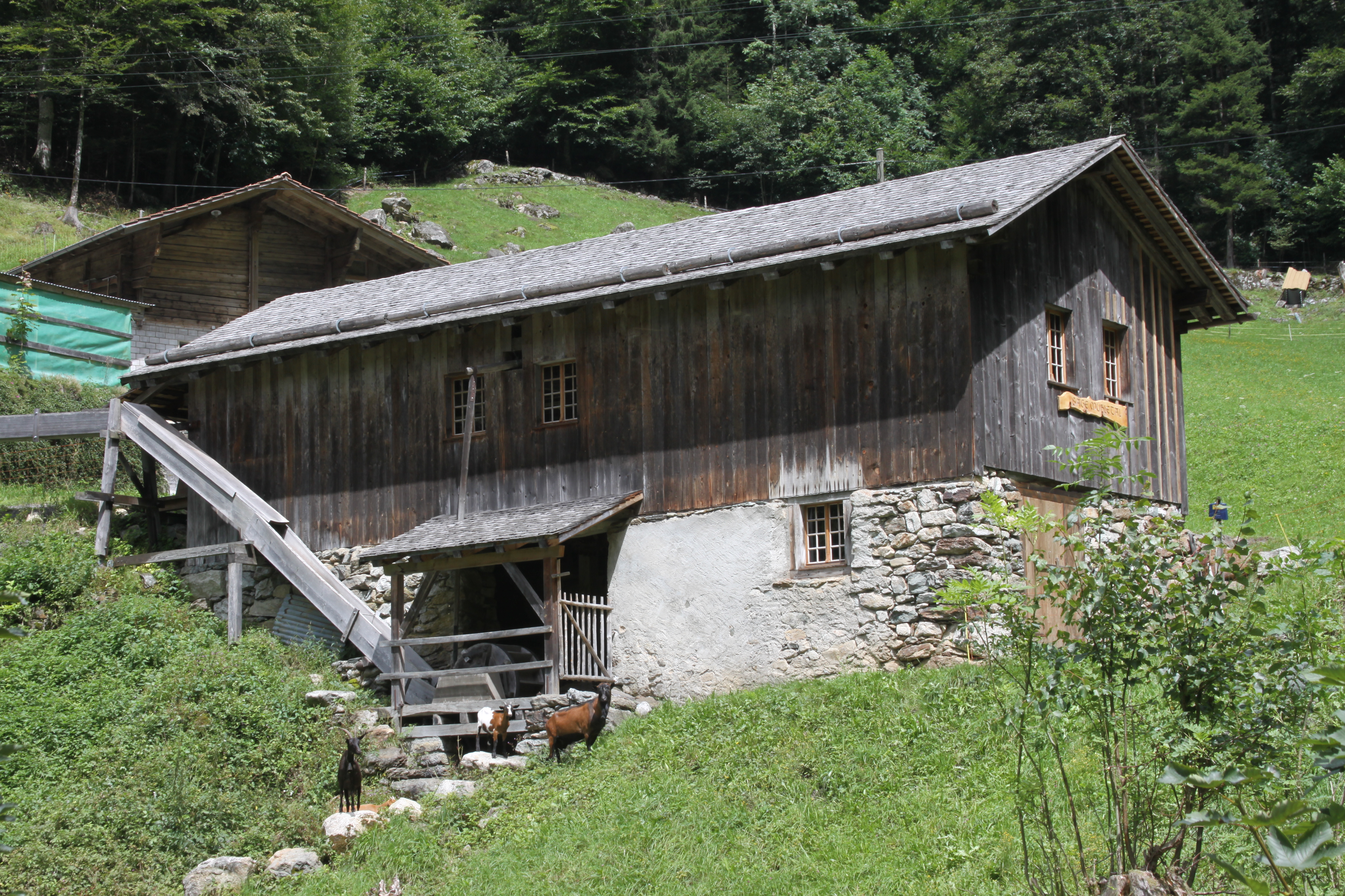 Saw mill, Üsers Milital 642b, Mühletal (Innertkirchen)